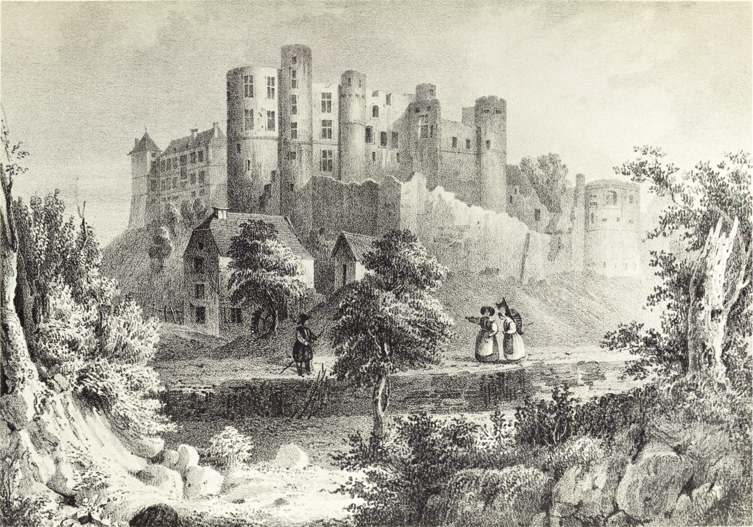 The ruins of the castle of Beaufort, Luxembourg. Drawing.